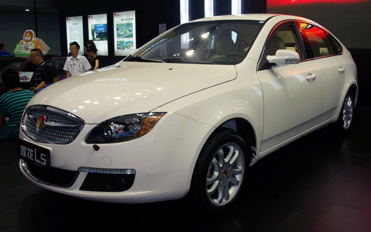 Youngman Lotus L5 at Chongqing Auto 2011. This car is labelled Europestar in export markets, as Youngman only has the rights to use the Lotus name in China